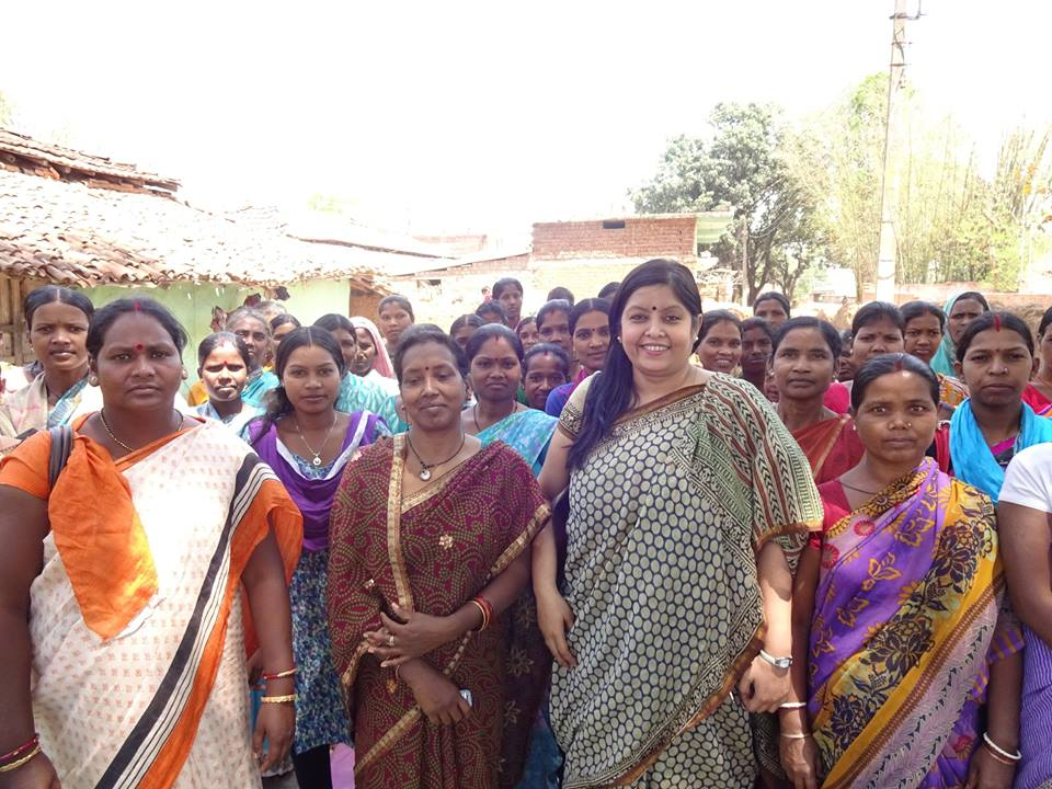 Working with Self-Help Group of Tribal Women in Jharkhand